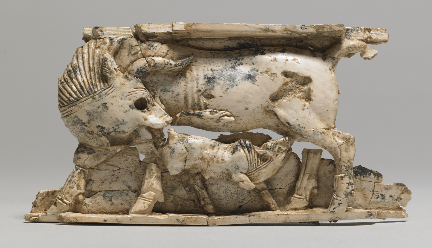 Some of the most elaborate ivory works have been discovered in the Kalhu (present-day Nimrud). These objects were brought from Syrian and Phoenician workshops to the Neo-Assyrian court. Egyptianizing style and Egyptian motifs were quite popular among those artists. Large quantities of such ivory works were excavated in special store rooms in Nimrud, particularly in Fort Shalmaneser. This inlay displays a typical Egyptian motif, which may be related to Hathor, the Egyptian goddess who often took the form of a cow and suckled royal infants. The proportions and compact composition are characteristic of the ivory-carving schools of northern Syria.